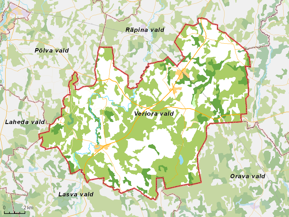 Map of municipality in Estonia